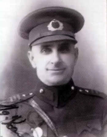 Lieutenant general Kemal Doğan